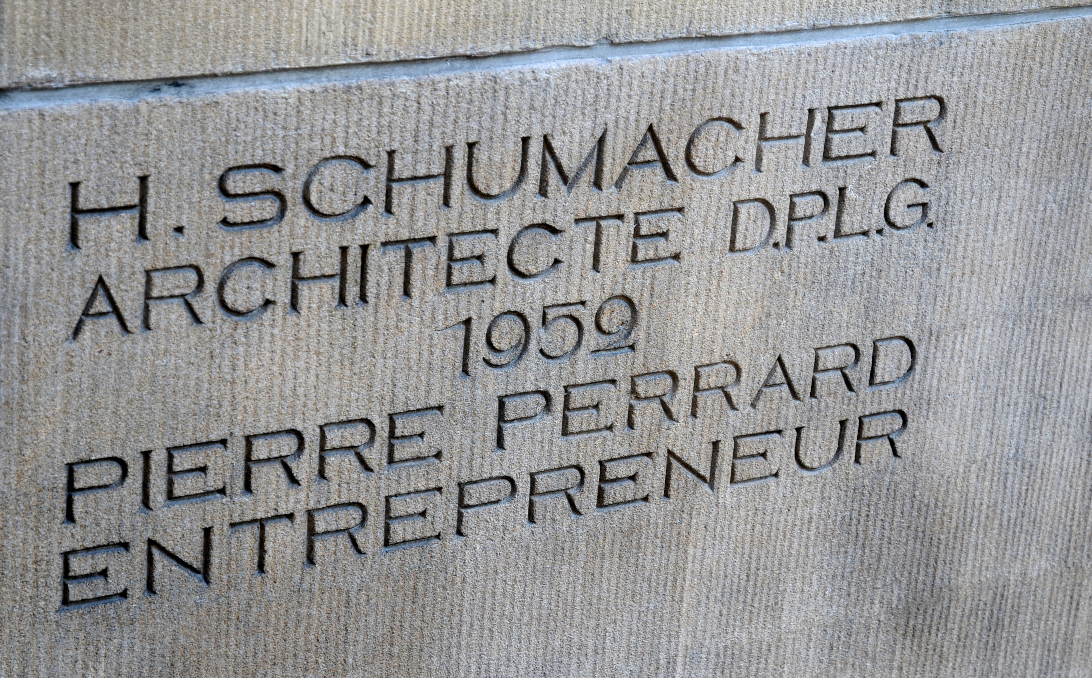 Hubert Schumacher, architect; Ministère de l'éducation nationale, rue Aldringen